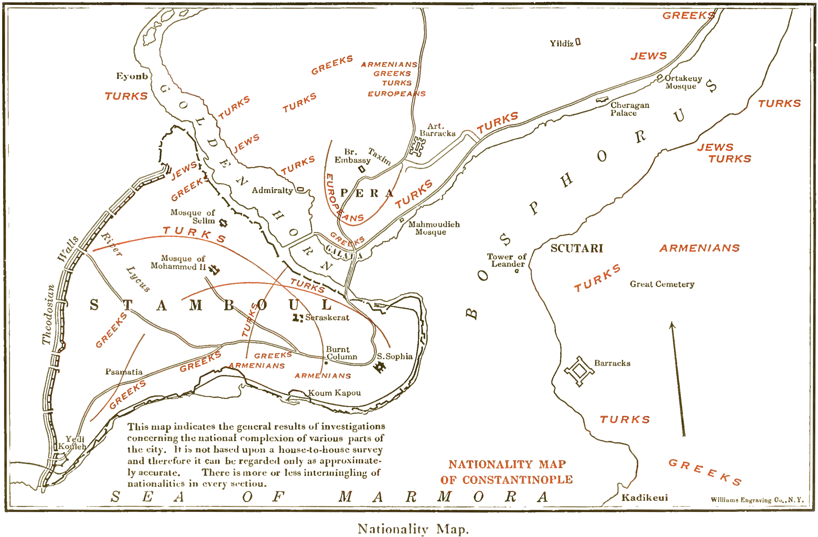 Ethnic map of Istanbul, Ottoman Empire (present-day Turkey). The map is captioned "Nationality Map," and includes the following note: "This map indicates the general results of investigations concerning the national complexion of various parts of the city. It is not based upon a house-to-house survey and therefore it can be regarded only as approximately accurate. There is more or less intermingling of nationalities in every section."